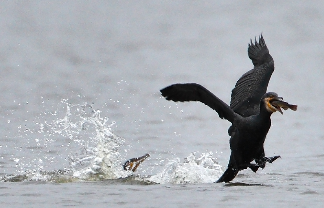 Stealing fish every often